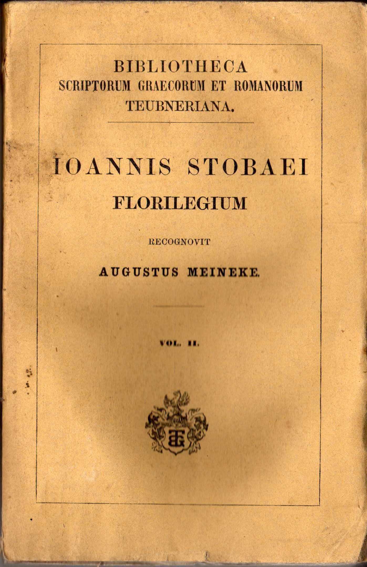 Book cover, Stobaeus publ. Teubner